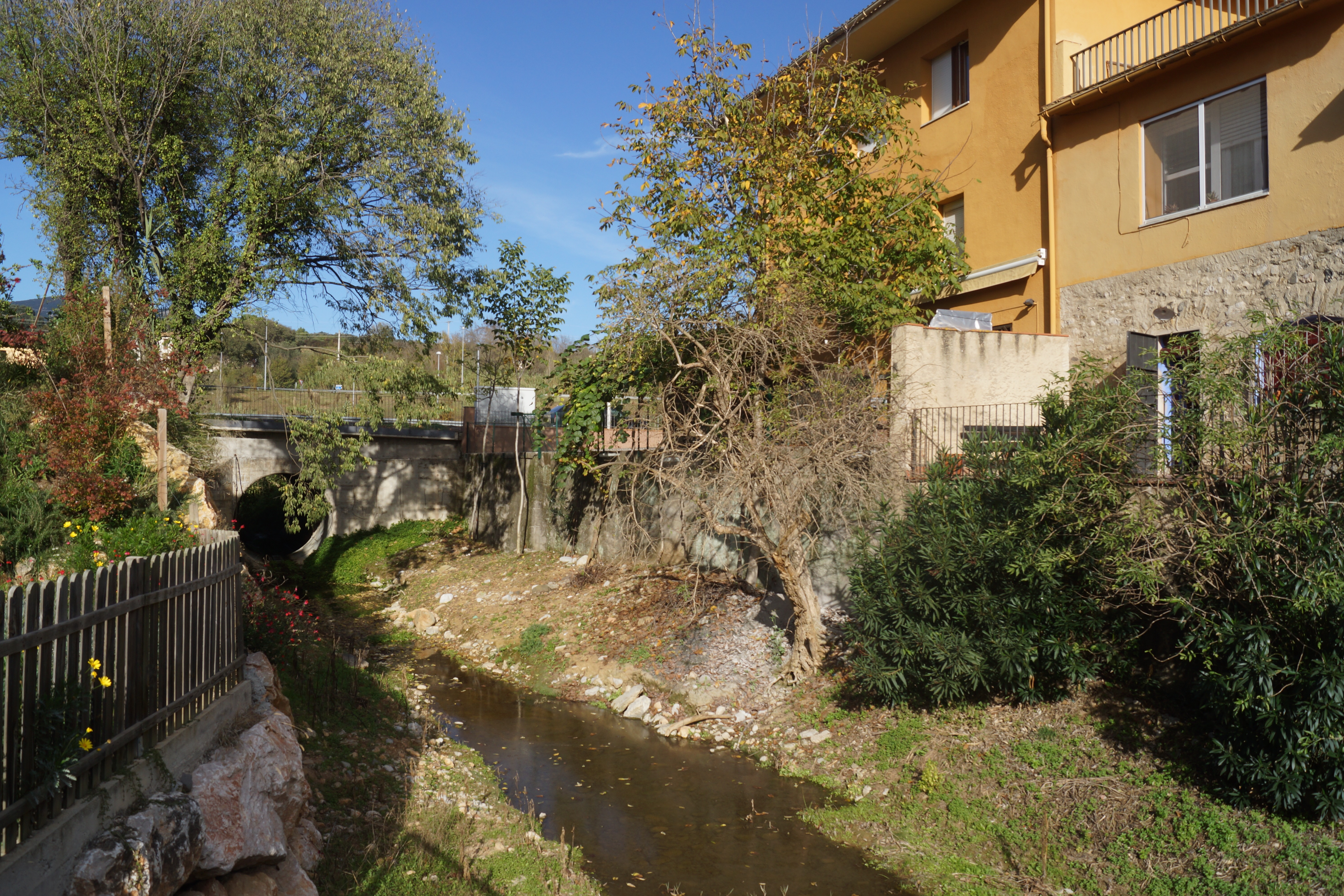 Argelaguer, Catalonia: The river Torrent del Vinyot